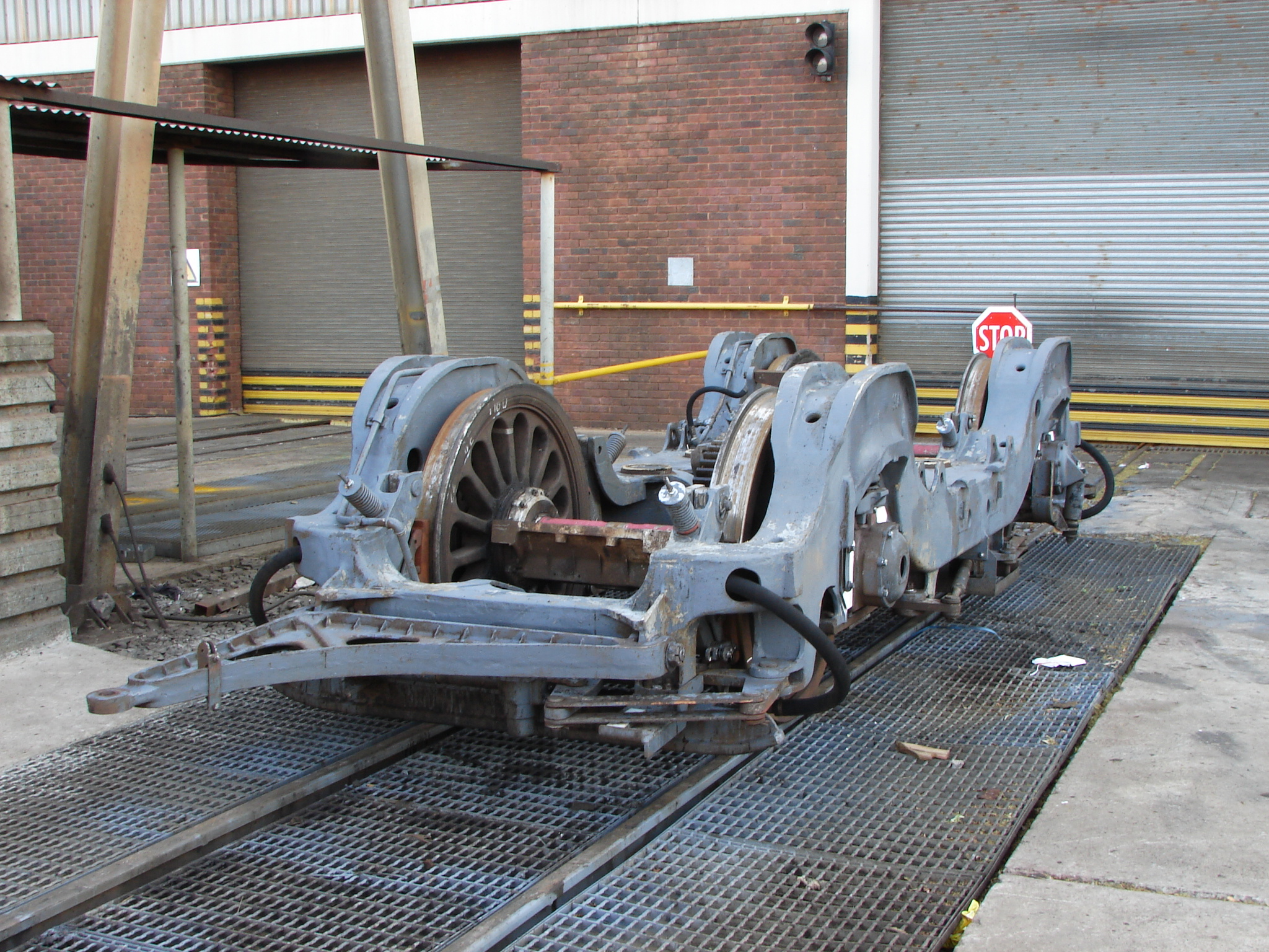 Class 6E1 bogieLocation: Sentrarand Depot